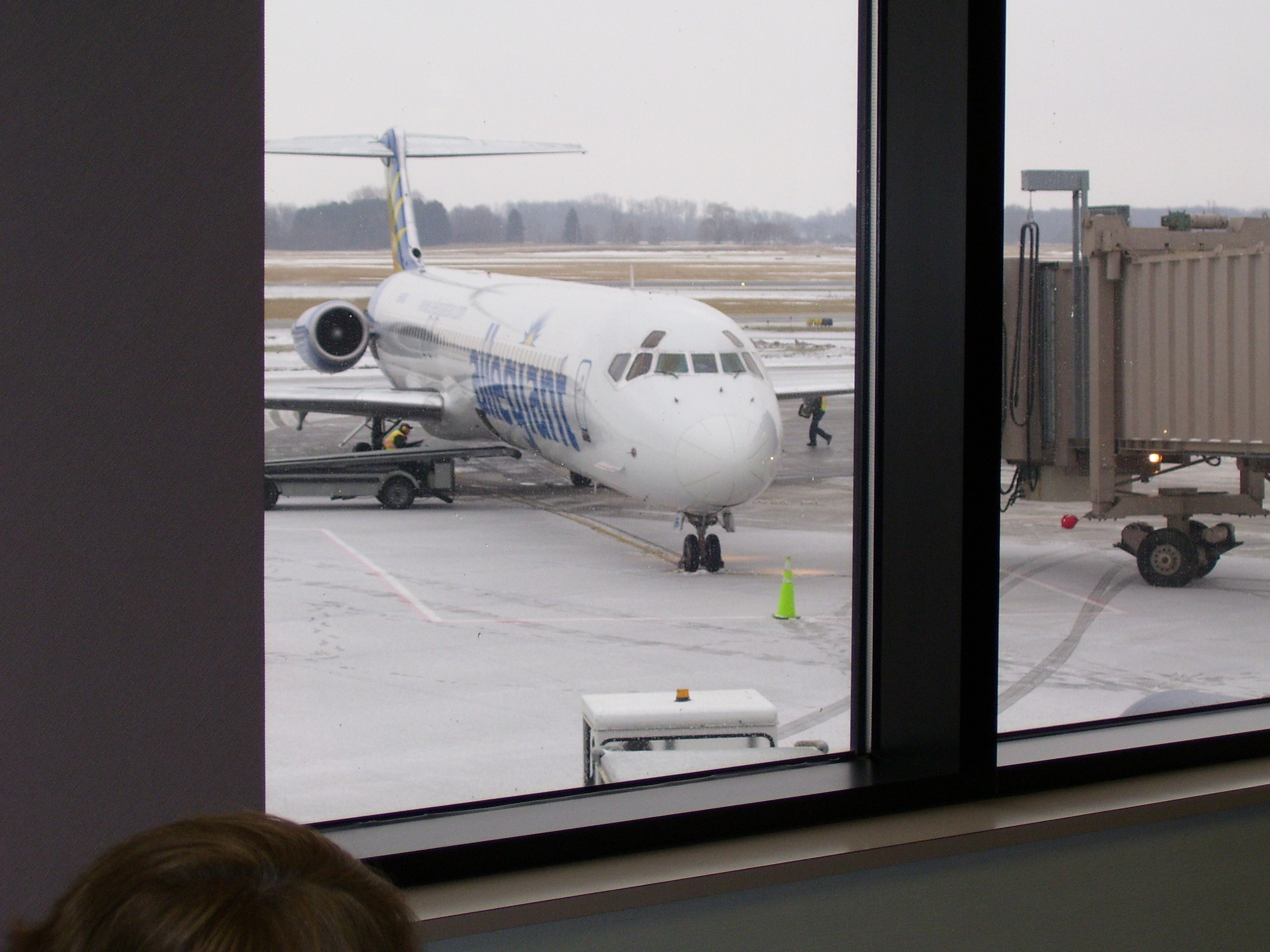 This is a photo of an Allegiant MD-83; Lansing, MI (LAN)-St. Petersburg/Clearwater, FL (PIE) flight